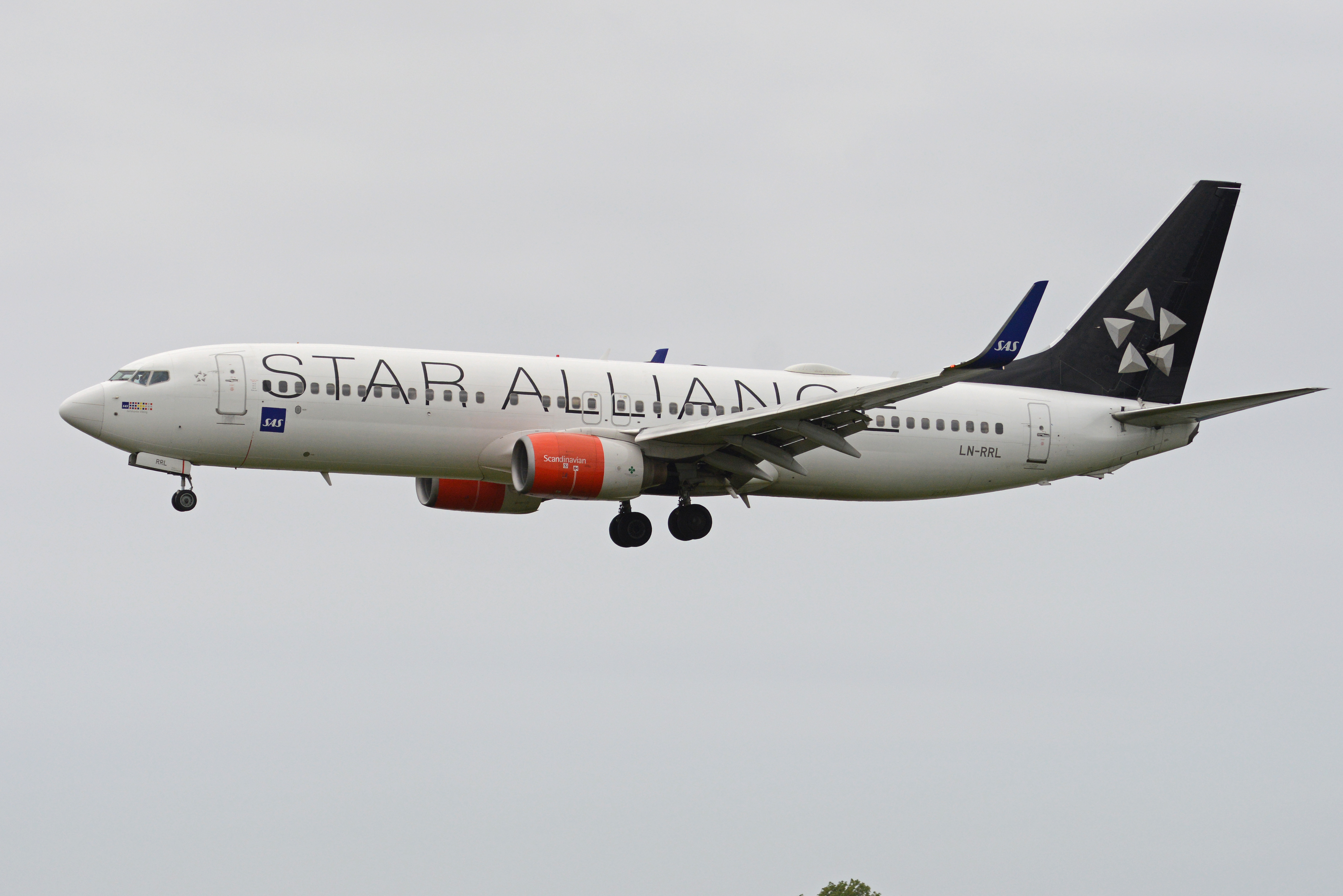 c/n 28328, l/n 1424. Built 2003 and operating in ‘Star Alliance’ scheme. Seen arriving on flight SK4025 / SAS57E from Oslo. Stavanger Airport, Sola, Norway. 11th June 2017